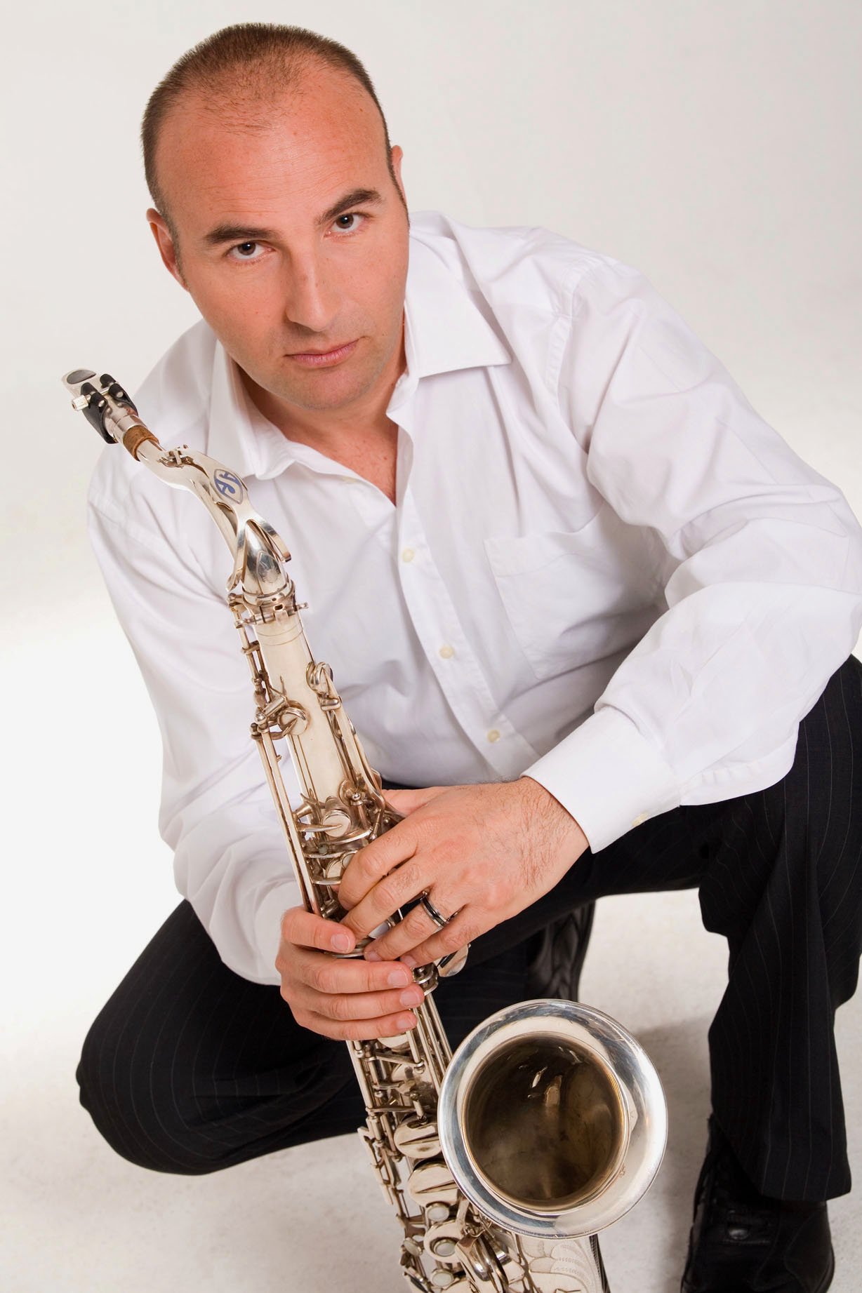 Photo of Mirko Fait